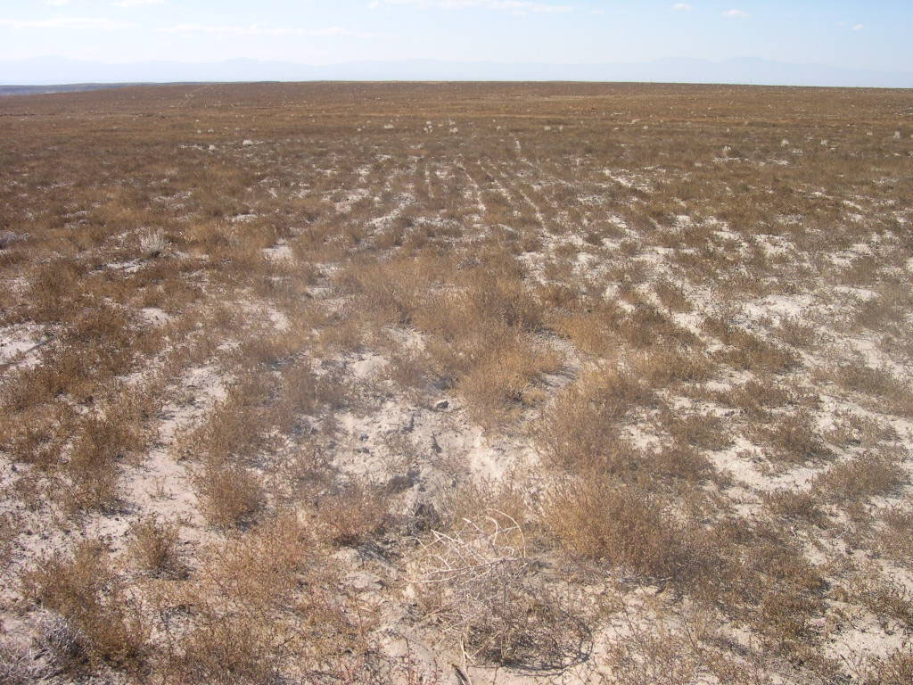 An attempt at rangeland restoration gone horribly wrong in southwest Idaho. Because of the fine clay soils, salinity and lack of precipitation only Salsola tragus, a non native weed, was able to grow after this area was burned in a wildfire and reseeded with crested wheatgrass- another non native which provides minimal forage for livestock and practically no use for wildlife that failed.